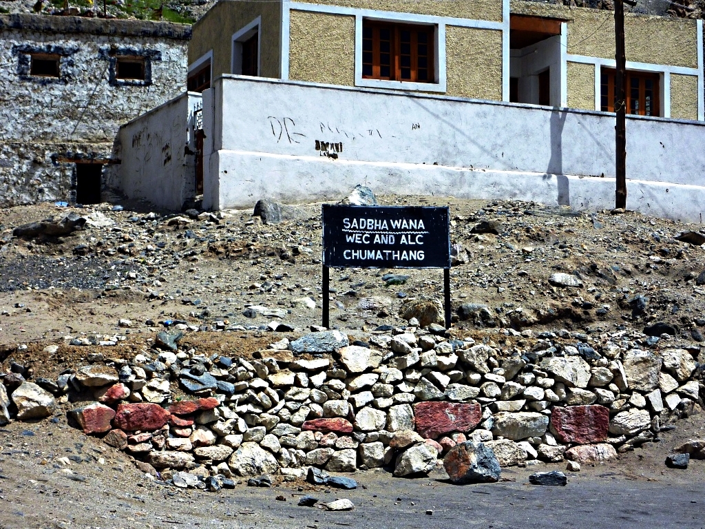 I took this photo on a trip to Ladakh in 2010.